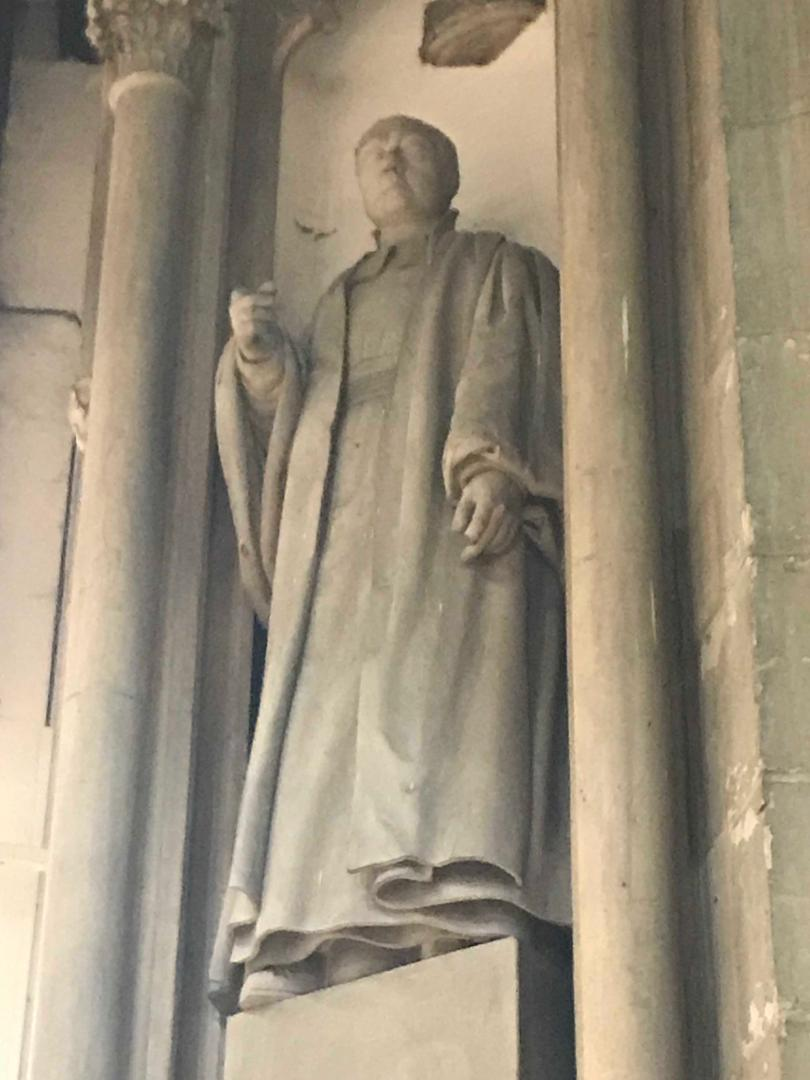 Dr. Richard Valpy by Samual Dixon, St. Lawrence Church, Reading, England